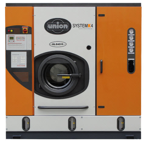 A modern alternative solvent machine for use with SolvonK4, GreenEarth, KTex and Hydrocarbon